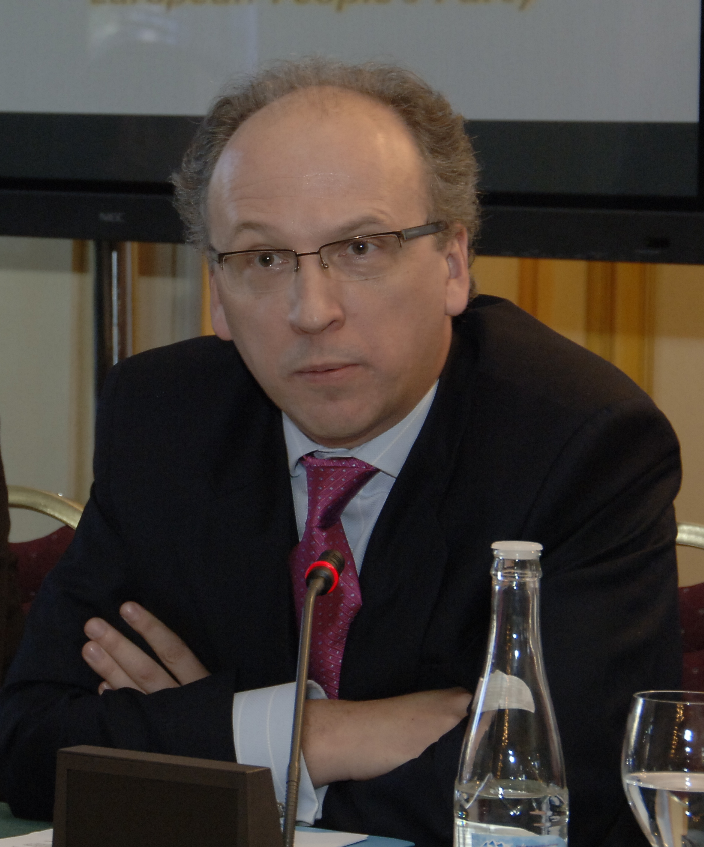 EPP CONVENTION ON CLIMATE CHANGE IN MADRID (6-7 FEBRUARY 2008)